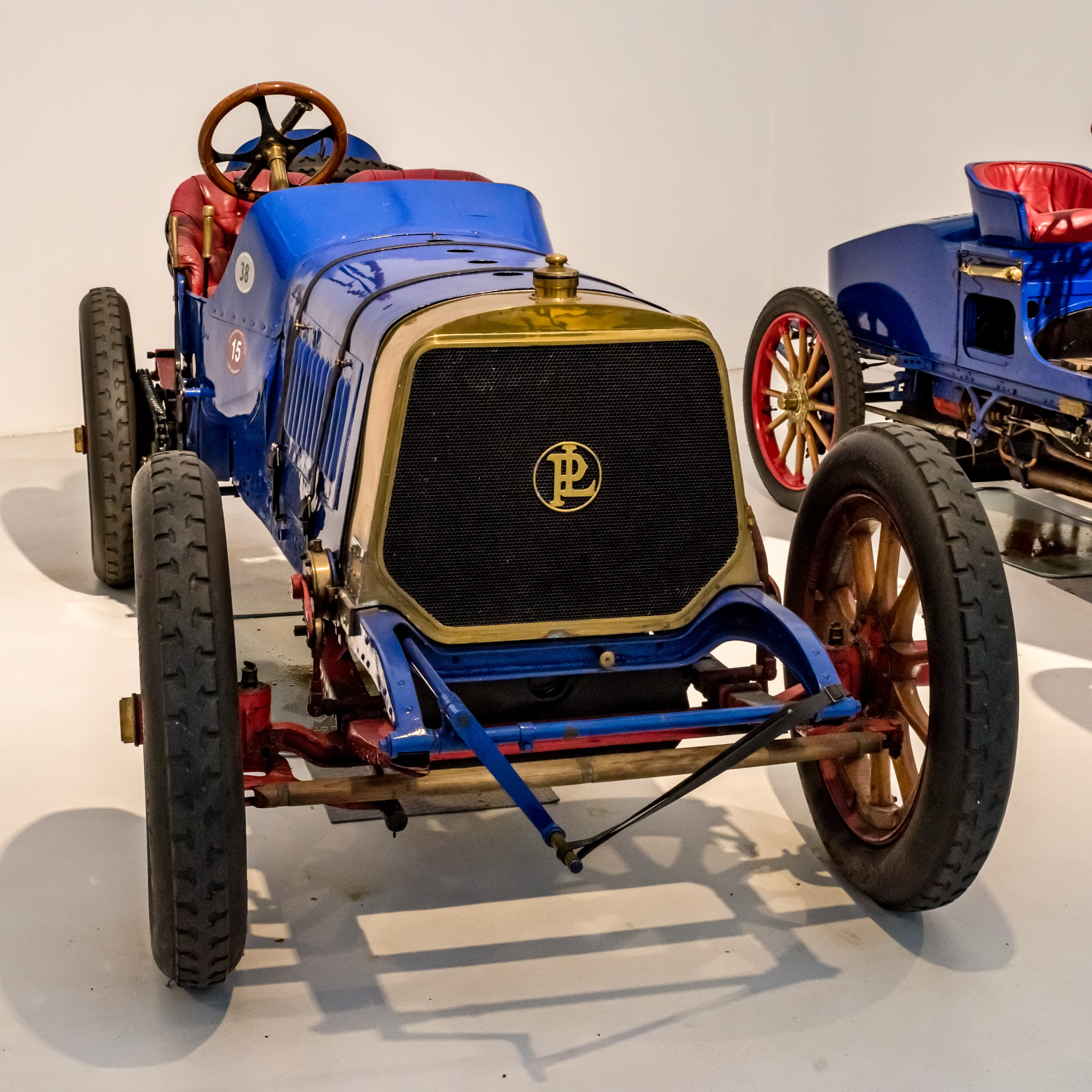 pictures from the Cité de l’Automobile – Musée National – Collection Schlump in Mulhouse, France ptictures from the 10. may 2018